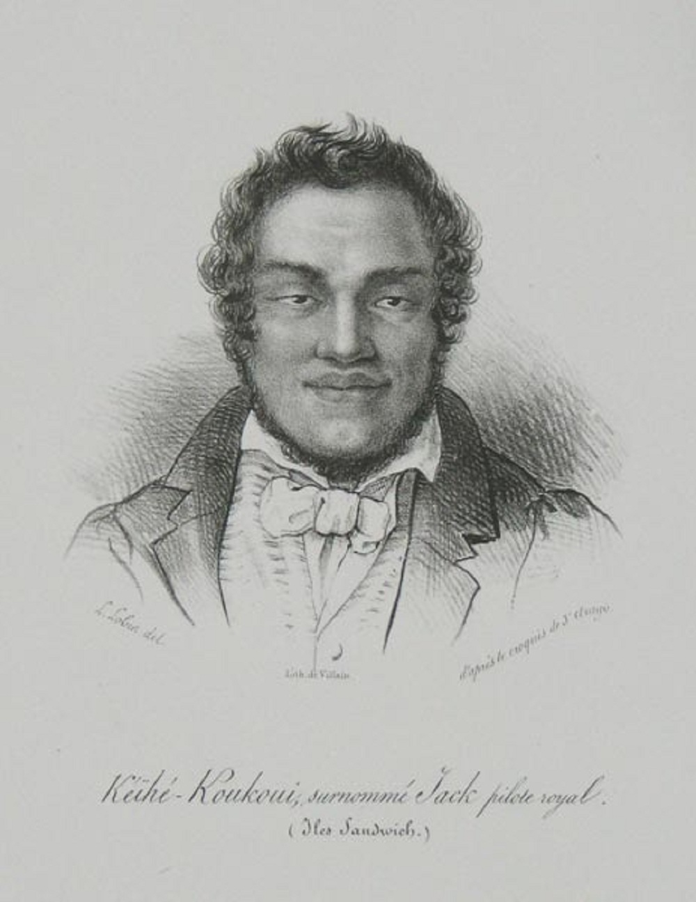 Naihe Kukui was a harbor pilot in the early days of the Kingdom of Hawaii. He was known as "Jack the pilot", or in French "Kéihé-Koukoui, pilote royal surnomé Jack